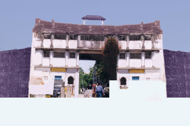 The Rajagari Fort is located in the town of Narasaraopet (Not currently built)